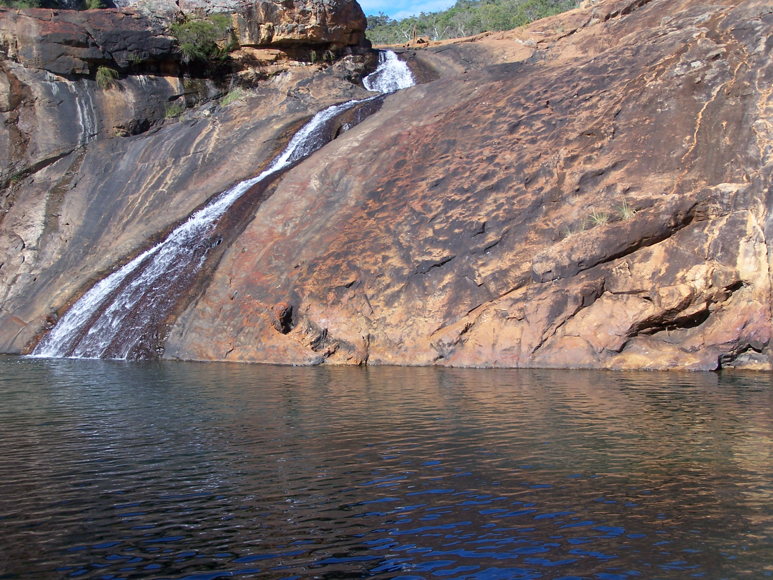 Serpentine Falls part of the serpentine river, in the Serpentine Falls National Park Western Australia.